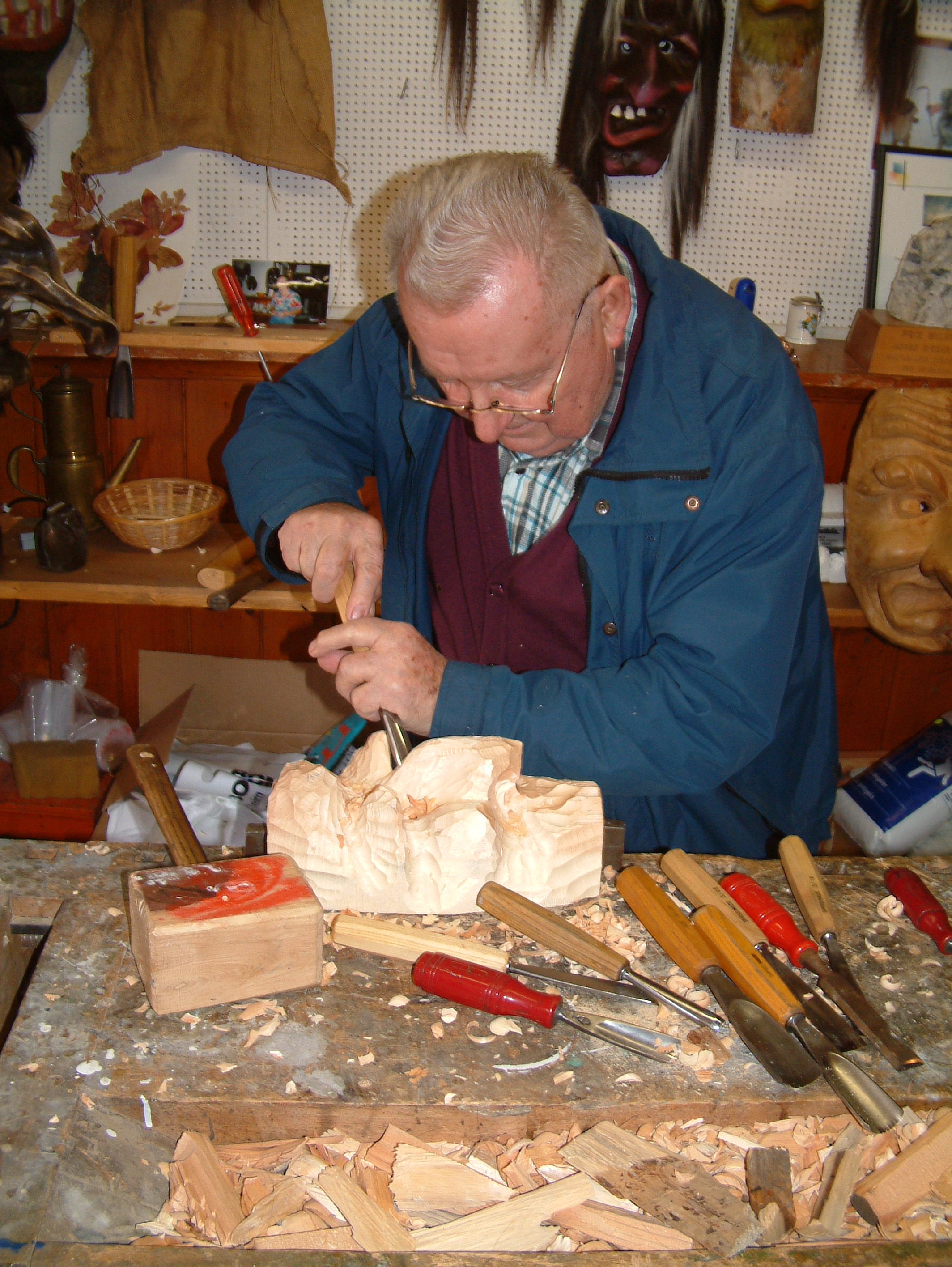 Tschäggättä, costumed figures wearing wooden masks during Carnival in Lötschental/Switzerland. Displayed at Lötschentaler Museum - Kippel.